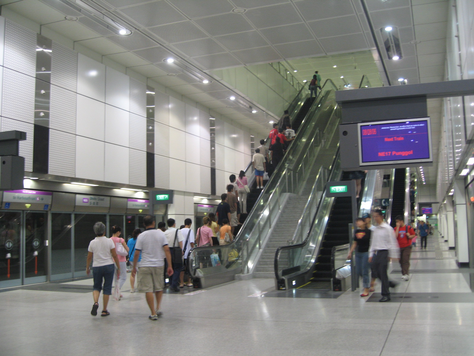 Dhoby Ghaut MRT Station.